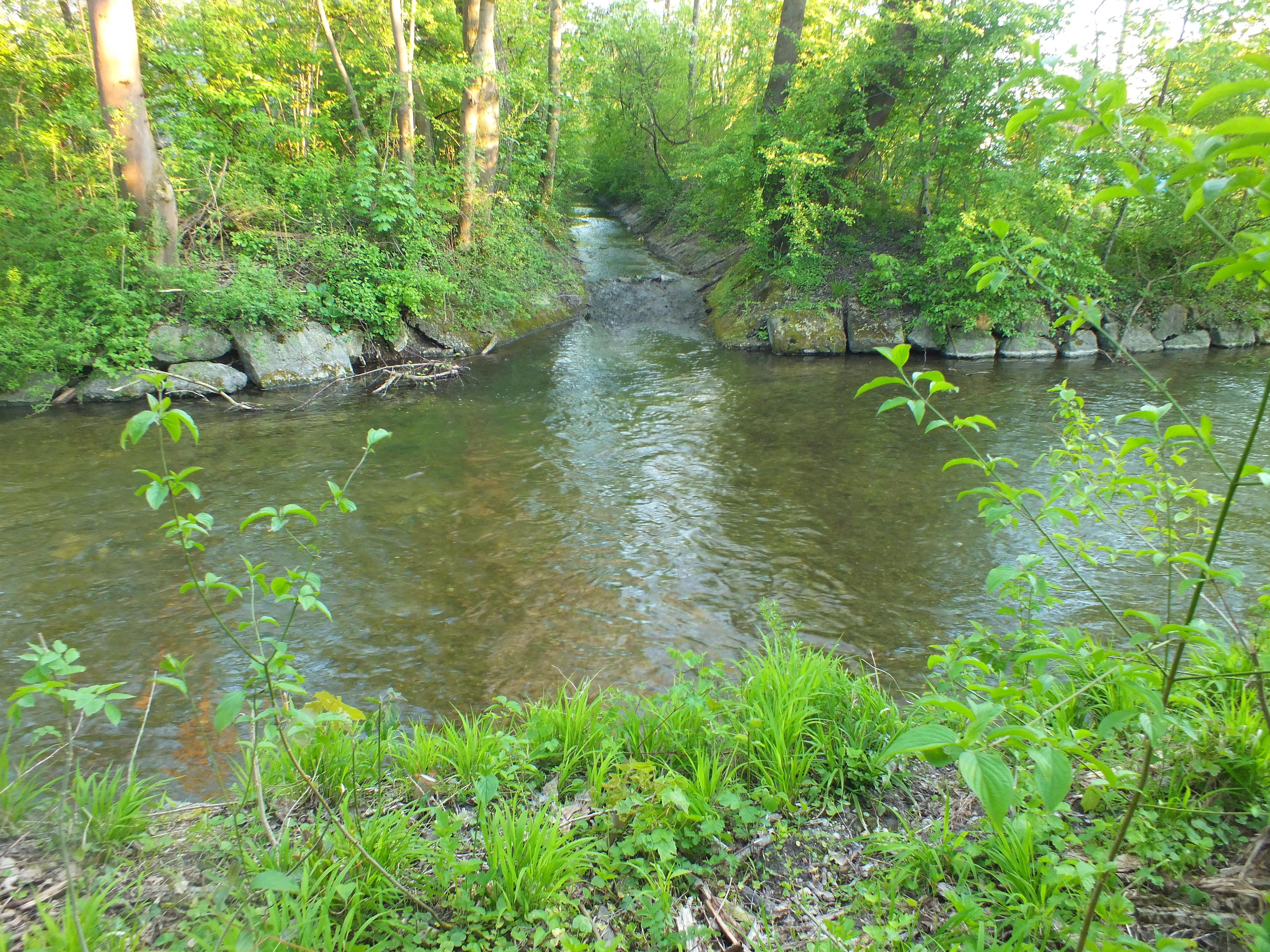 Würmkanal mit feeder river Schwabenbächl